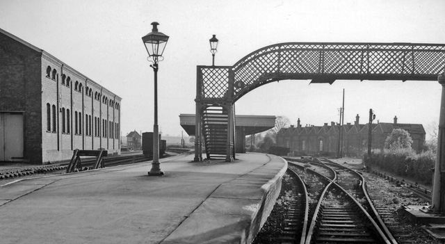 Bourne Station. View southwards, towards Essendine and Castle Bytham, showing the abandoned engine shed in the background. For further details, see TF0919 : Bourne Station - and the Red Hall almost on the Platform'.